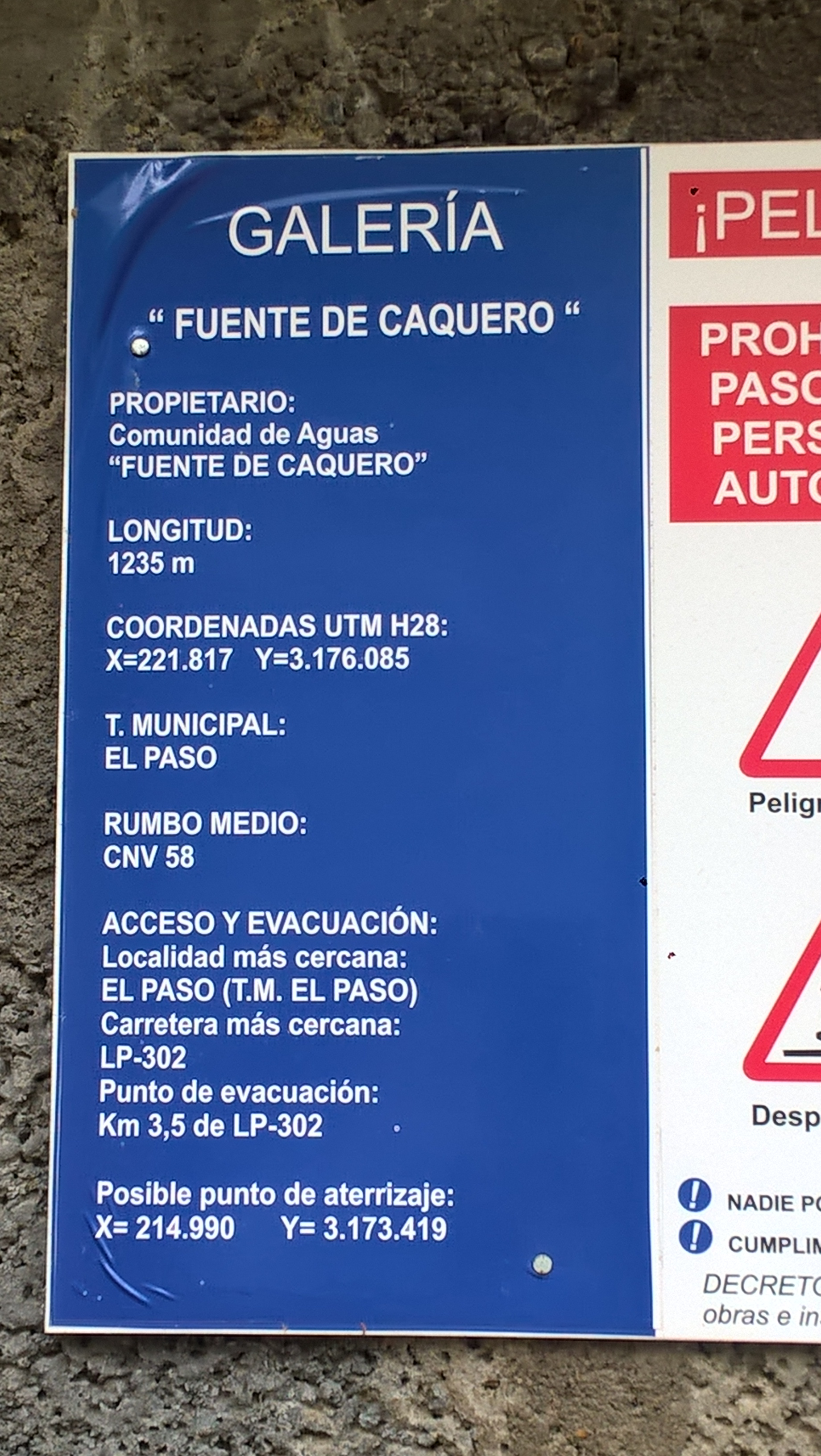 Board: Galería Fuente de Caquero at the LP-302 in El Paso, La Palma